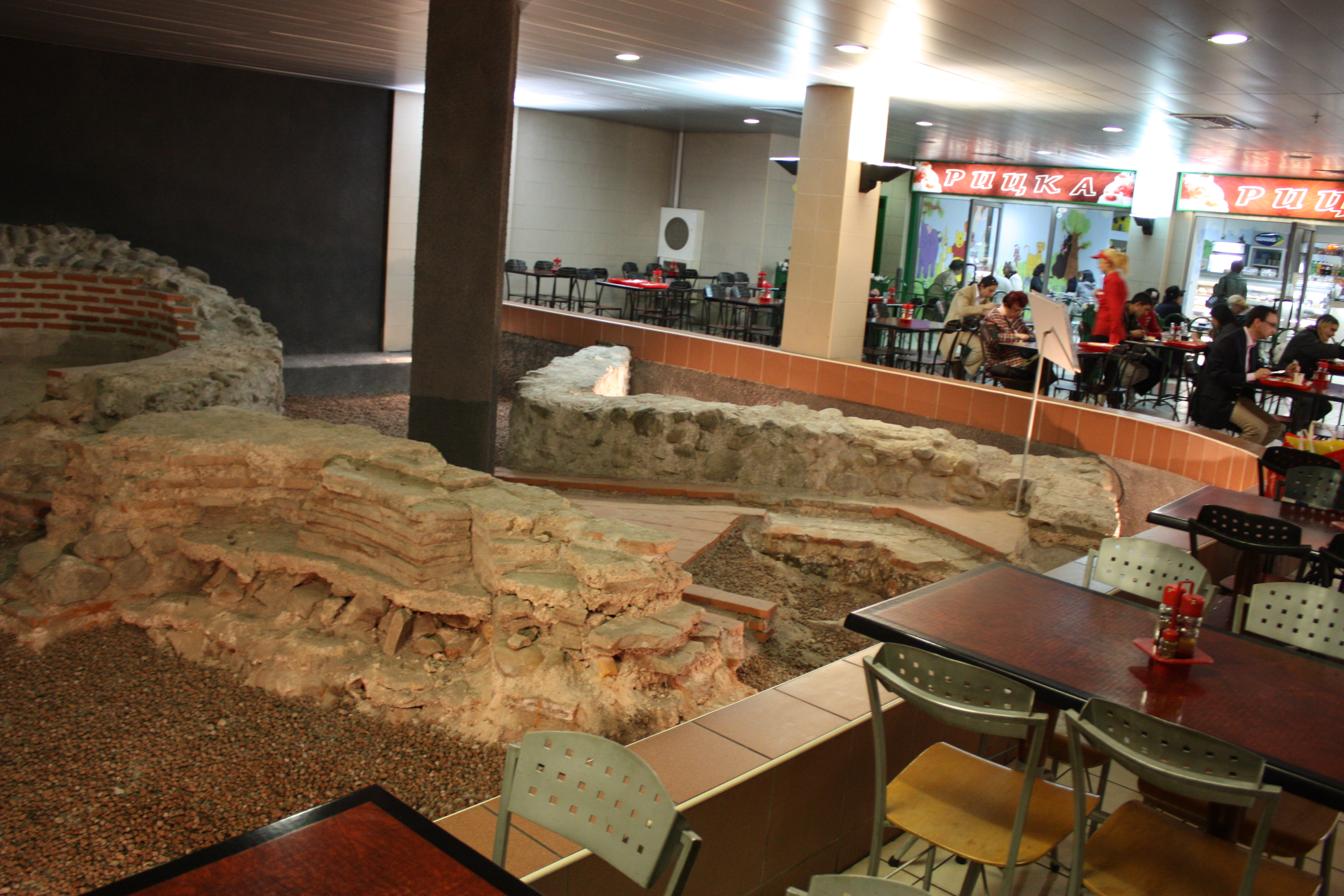 Serdica Fortress, Remains of Serdica fortress walls in the basement of central market hall Sofia, Bulgaria, Ruinen der Festunsmauer von Serdica, heute Sofia, im Untergeschoss der Zentralmarkthalle in Sofia